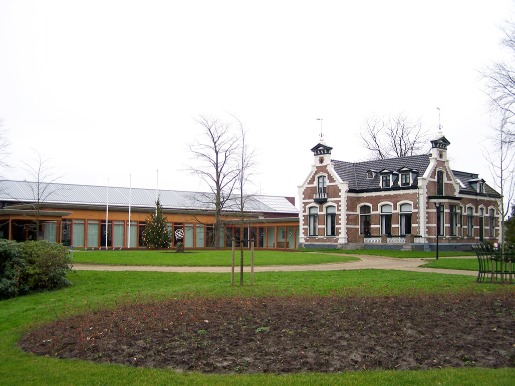 Recent Townhall of the municipality Kollumerland situated in Kollum.